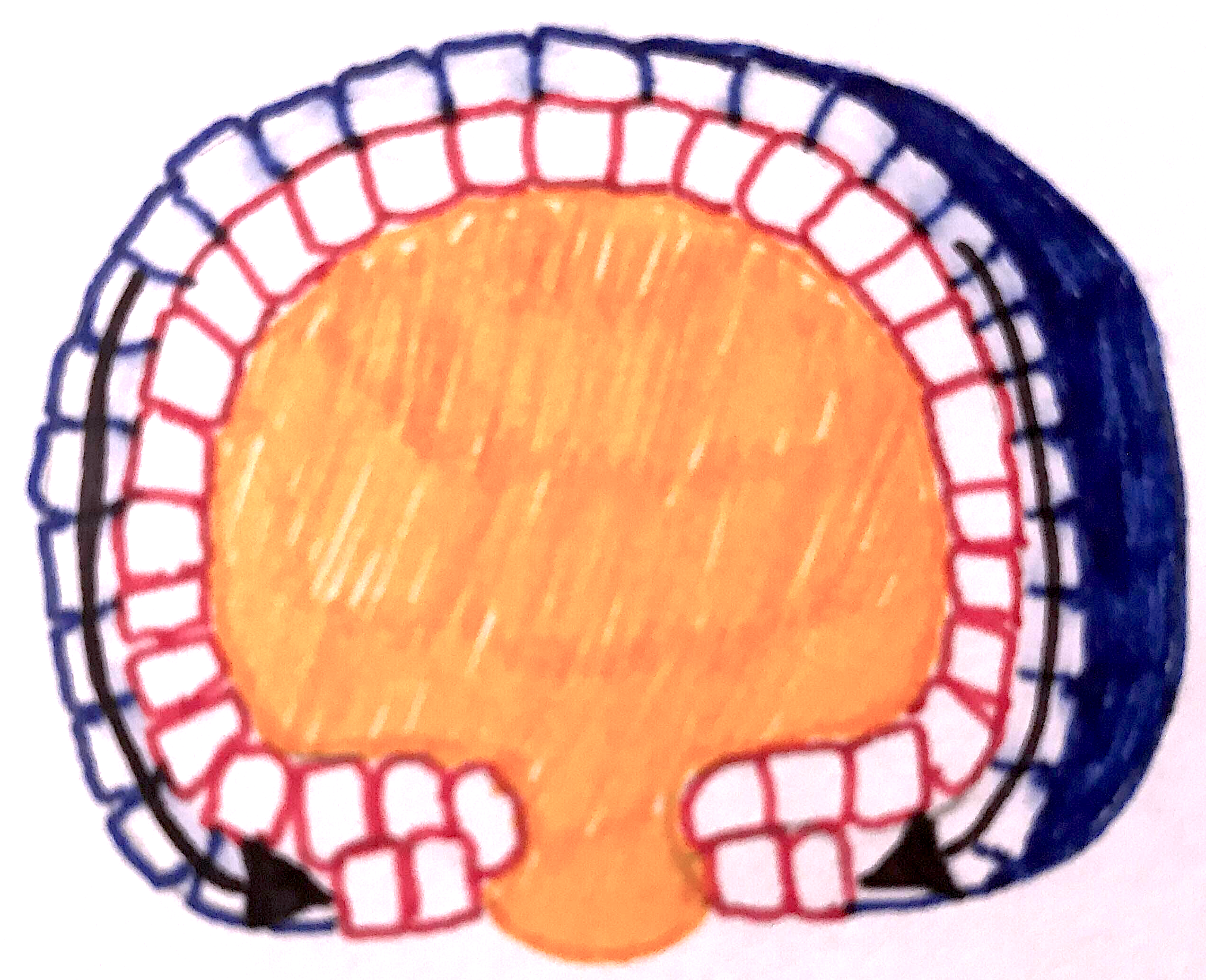 Epibolic movement of cells during gastrulation